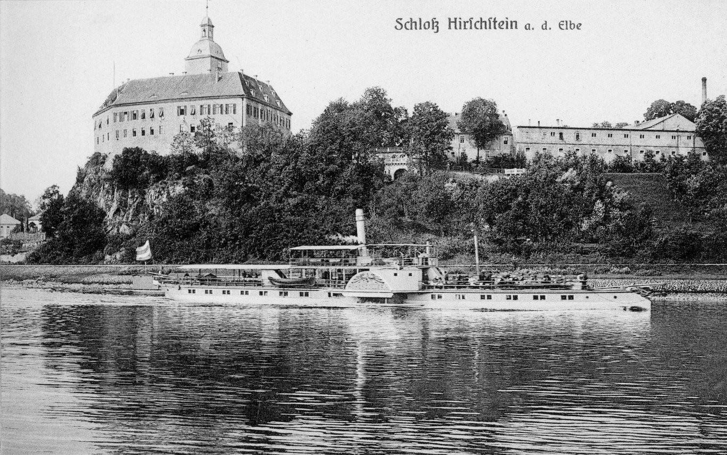 This postcard is from publisher Brück & Sohn in Meißen ( This postcard has a unique number 04013 and is available in a higher resolution at the publisher. This images was uploaded in a cooperation project between Wikipedians and the publisher.